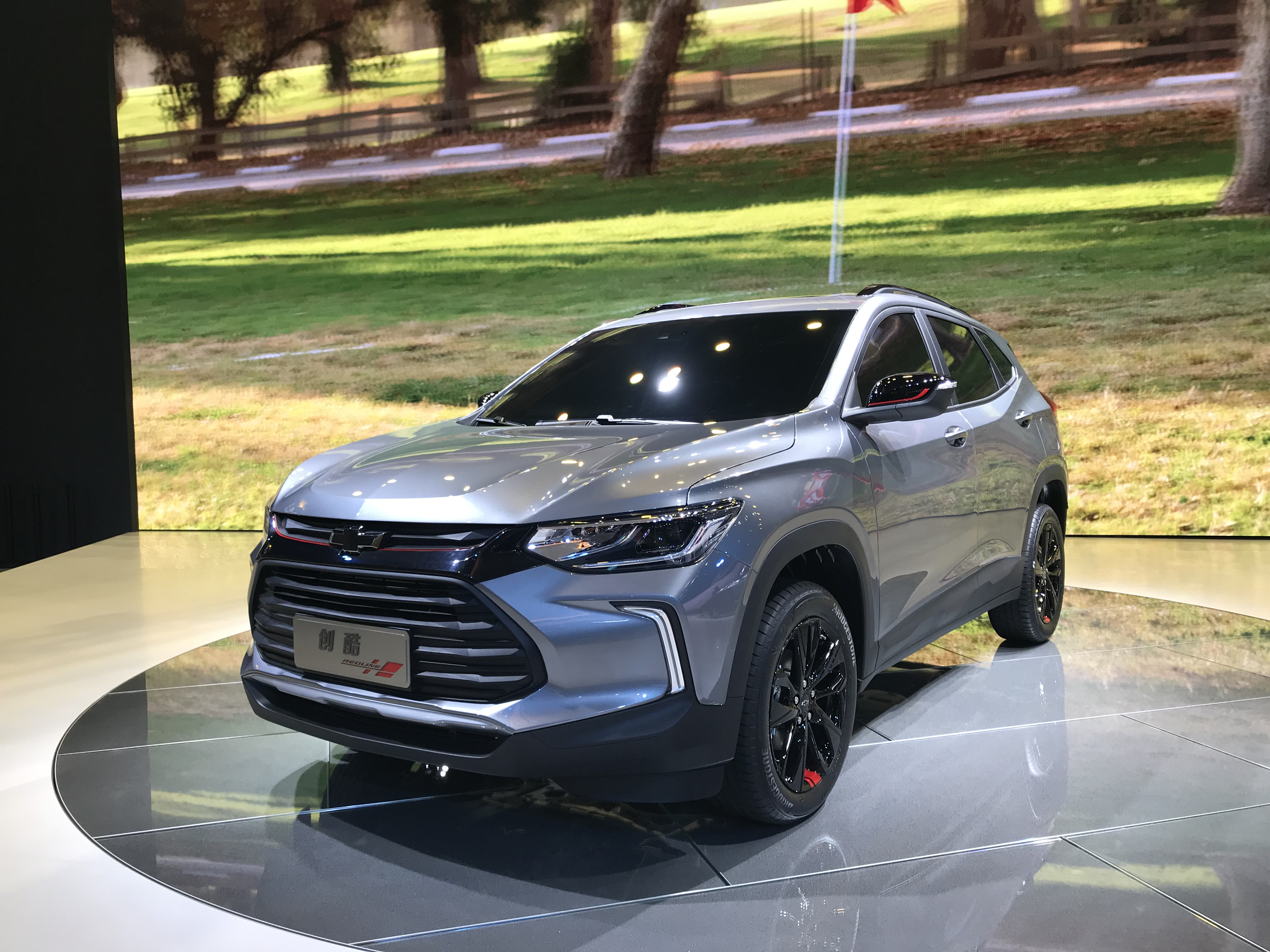 2019 Chevrolet Tracker front